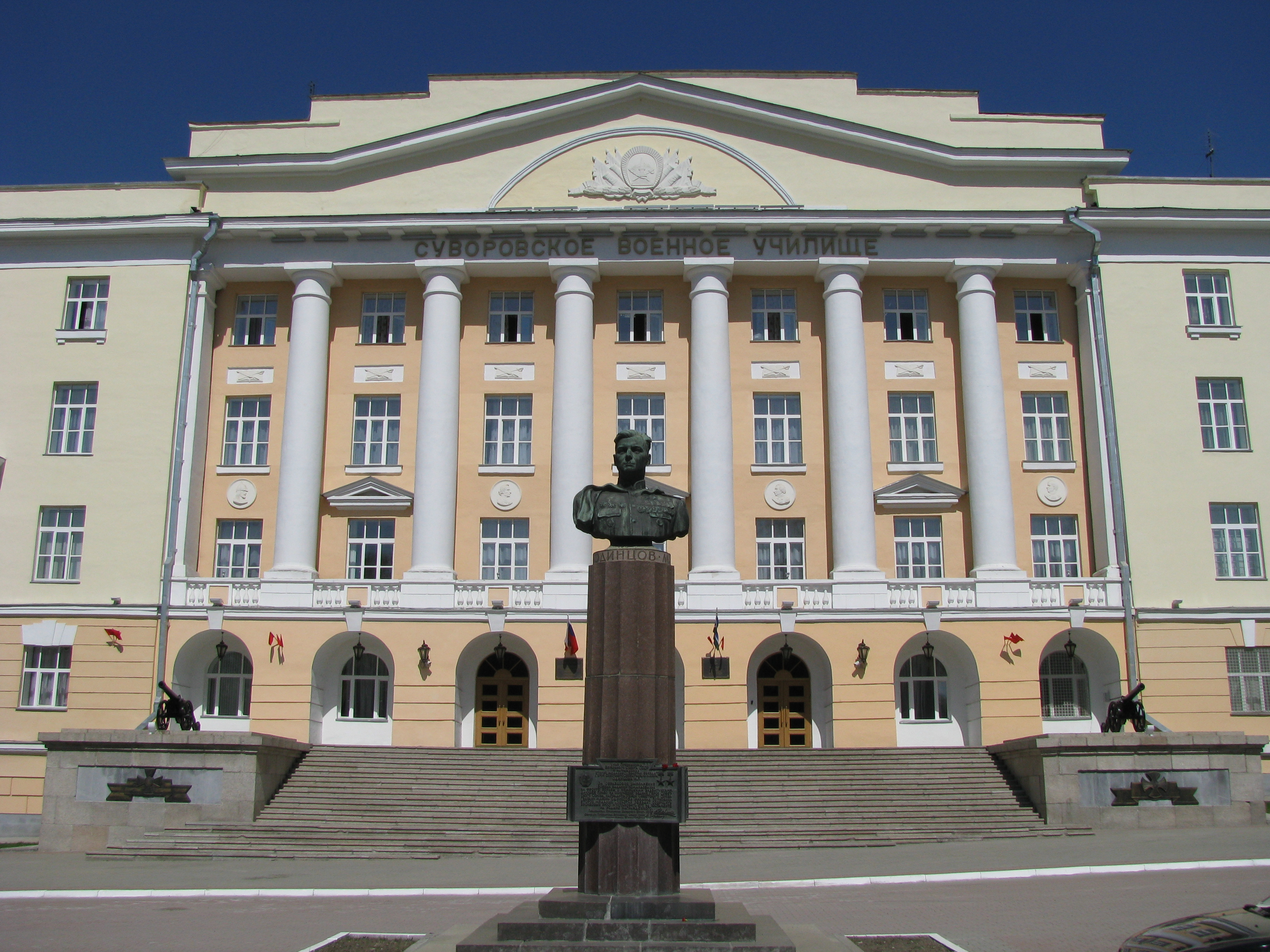 Suvorov Military School in Yekaterinburg with hero bronze bust (Colonel general of the aviation, Michael Petrovich Odintsov) on the main entrance.